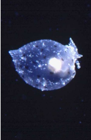 Notarchus punctatus from Turkey, Dive site: Uc Adalar, Date: May 2002, Depth: 15m, Size: all about 4cm